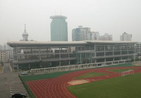 the interior tennis court in Changhsha of Hunan, P.R. China